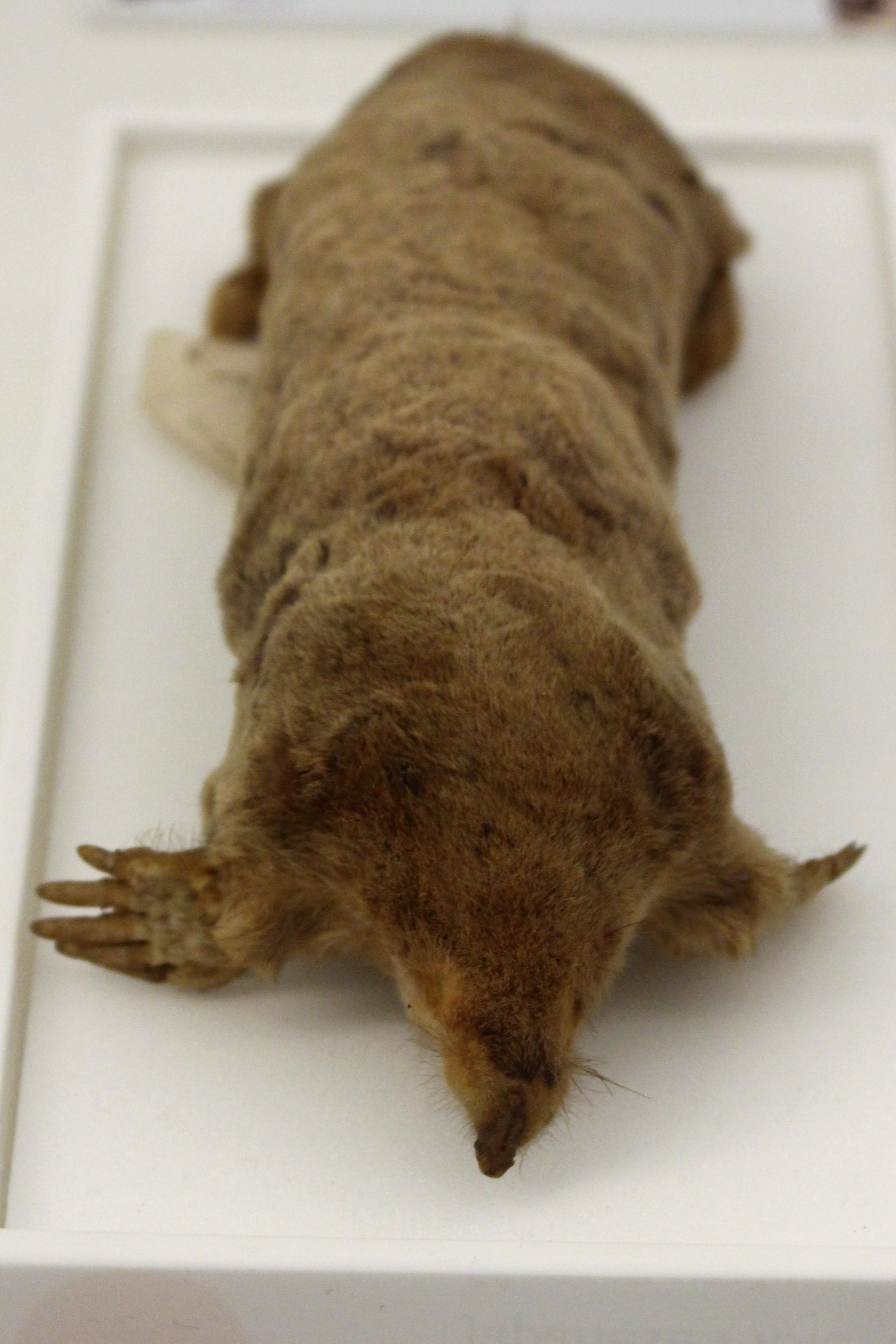 Taxidermied Japanese mole or Temminck's mole (Mogera wogura) at the Cambridge University Museum of Zoology, England.